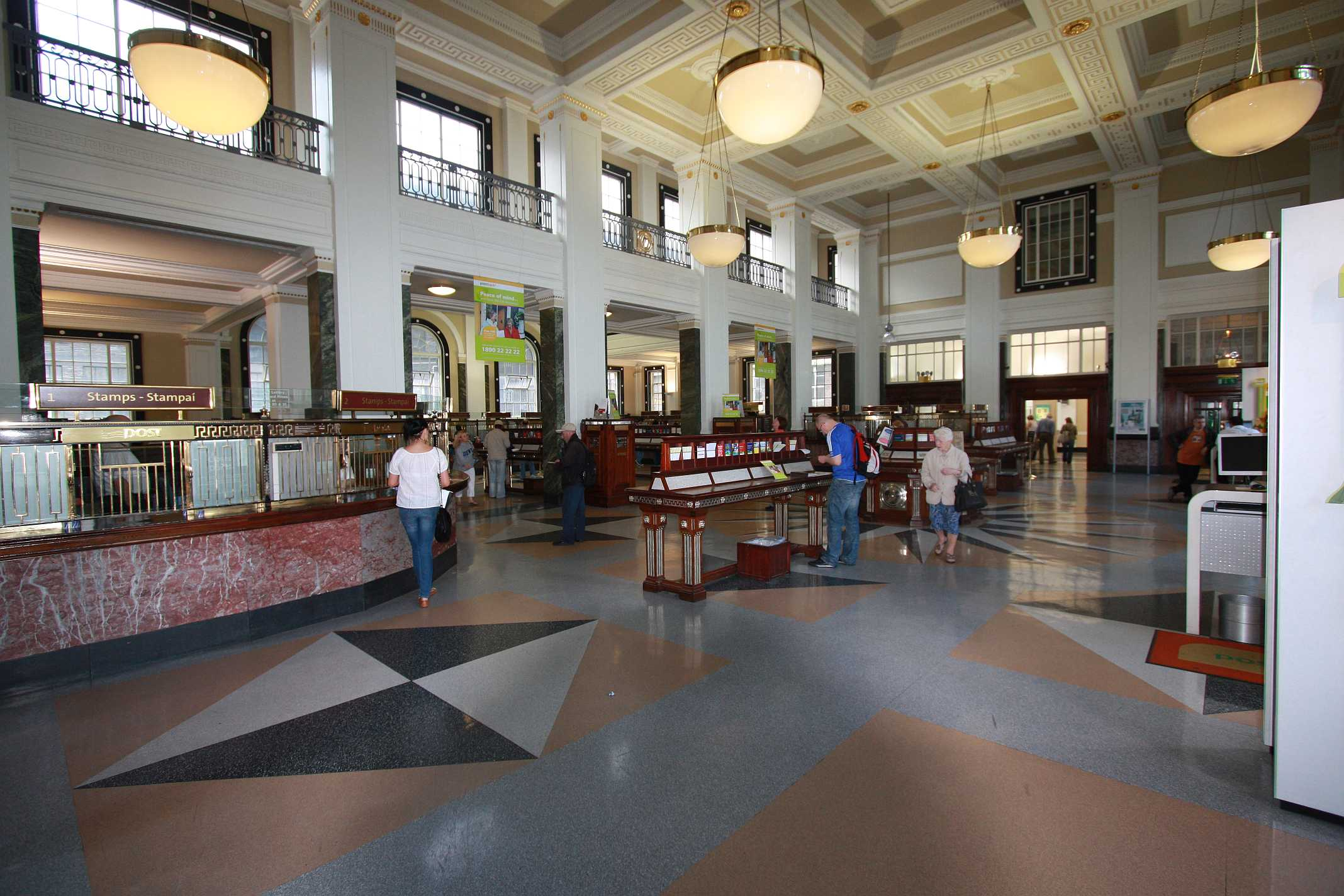 Dublin GPO Interior